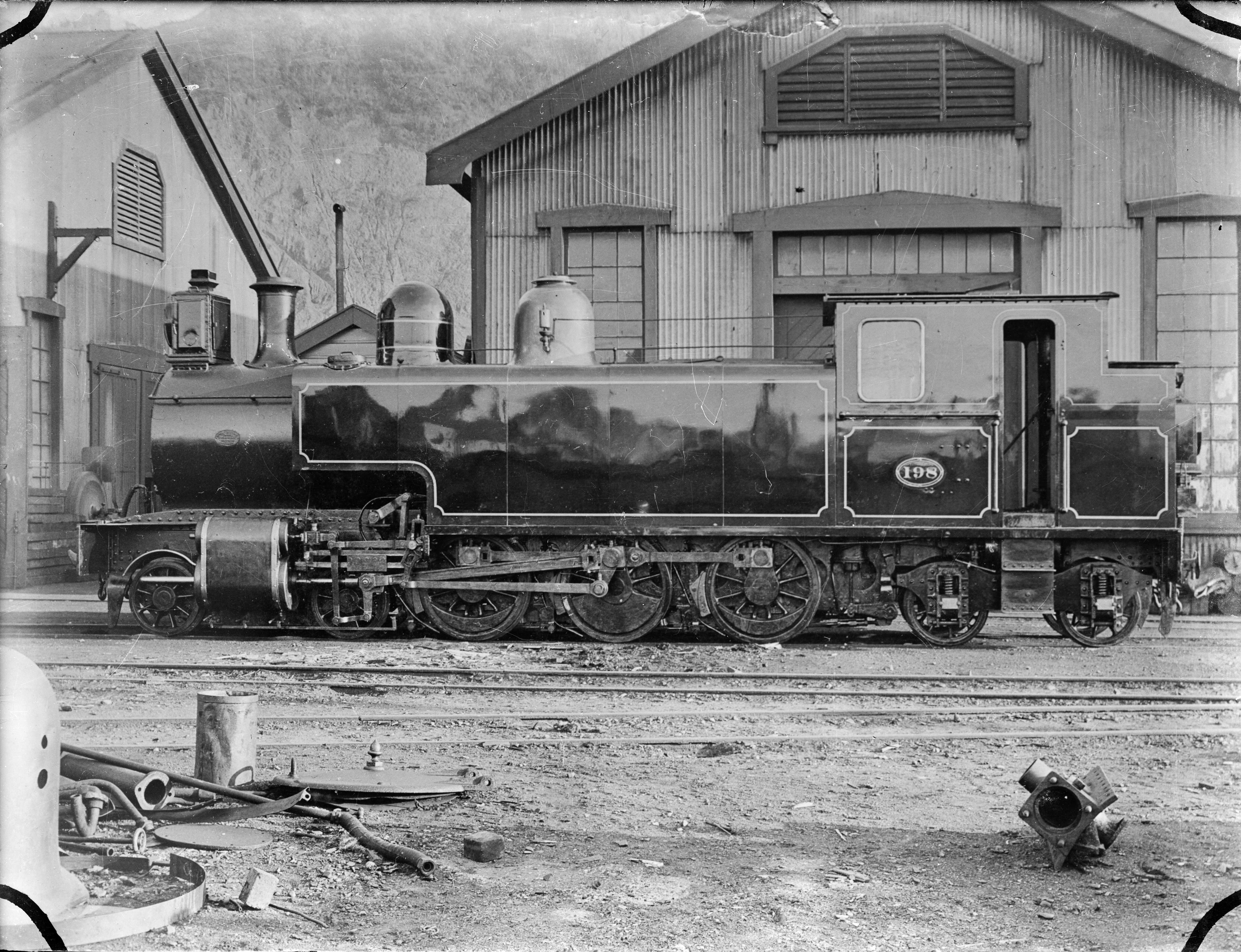 "We" steam locomotive 198, originally built as "B" class 198, converted to We class 4-6-4T type in 1902, and renumbered "We" 376 in 1942. Probably photographed by Stanley Arthur Rockliff, negative copied by Albert Percy Godber, probably circa 1902.